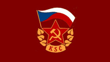 Flag of the Communist Party of Czechoslovakia